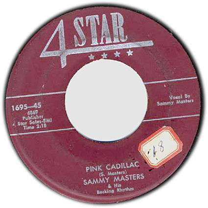 Pink Cadillac by Sammy Master, 4 Star 1956.